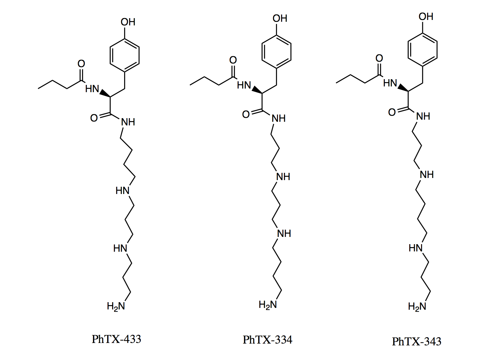 isomers generated during the identification of bioactive philanthotoxin structure